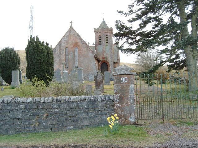 Church in Elvanfoot Info from the internet: "The cemetery which also incorporates the old churchyard and church opened in 1906, and can be seen from the M74 motorway. It is the most southerly cemetery in South Lanarkshire close to the Beattock Summit. The cemetery has new lairs available for sale and can continue to provide for future generations with regard to re-opening of lairs. The cemetery can also accommodate interments of cremated remains within existing family lairs."